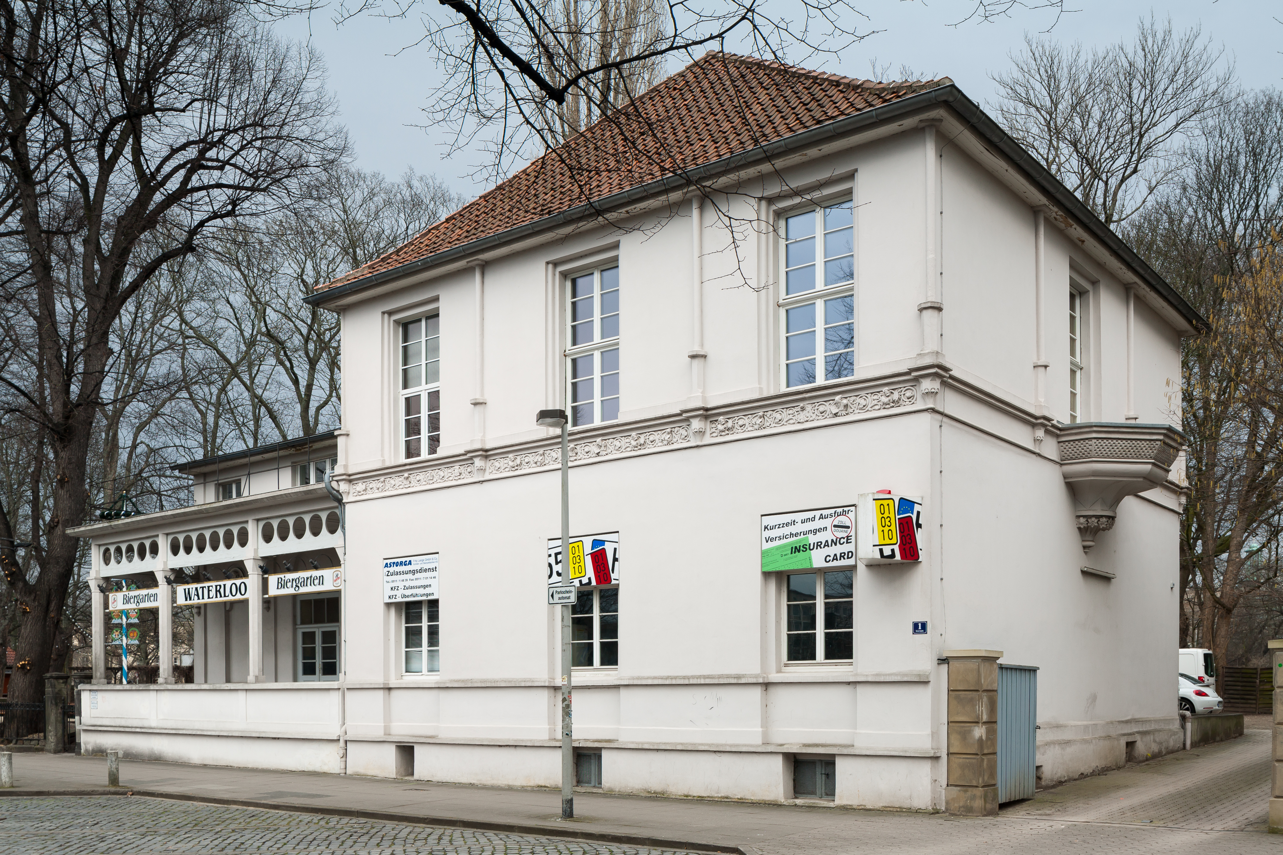 Former Kaulbach villa located at Waterloostrasse no. 1 in Calenberger Neustadt district of Hanover, Germany.